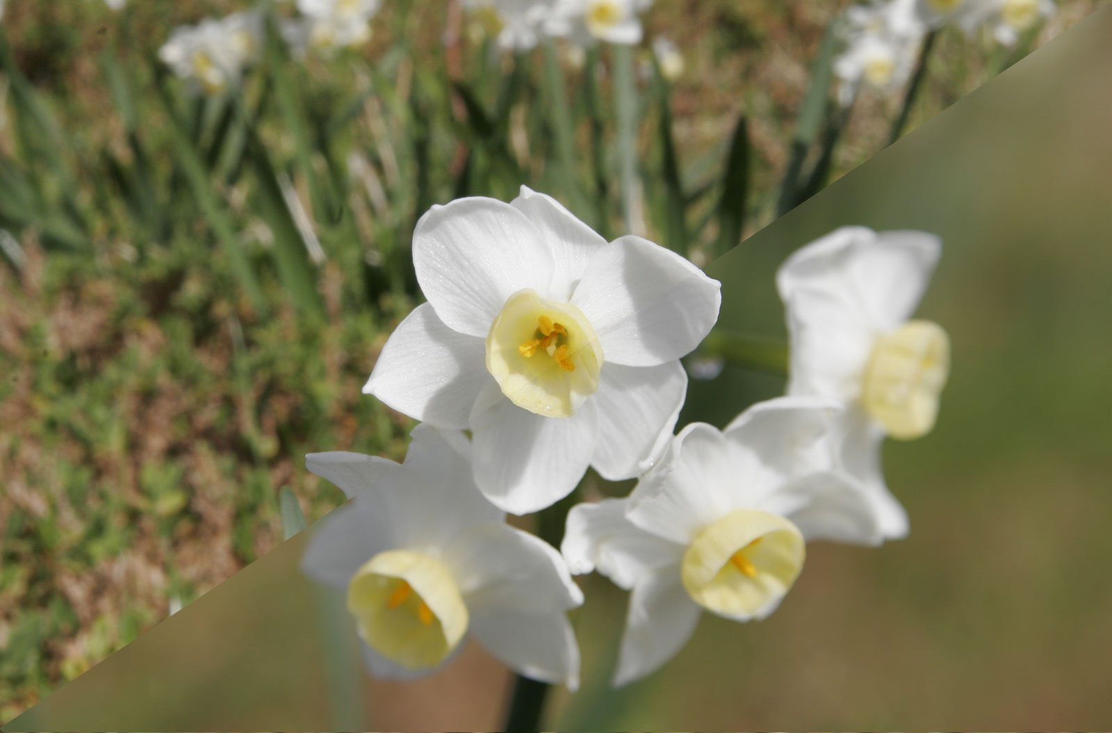 Merged Jonquil flowers shot at a f/5 and f/32 for comparison.